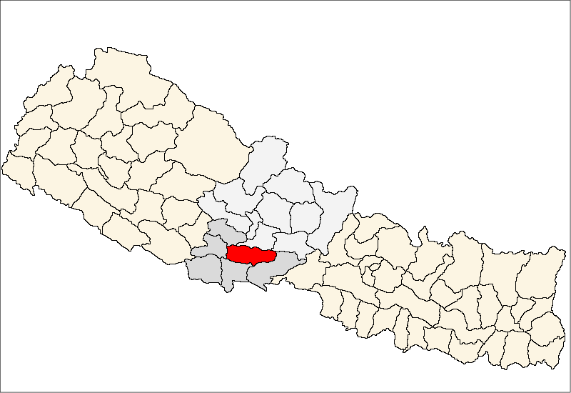 FrenchCarte de localisation dudistrict de Palpa(wp-FR),au Népal (wp-FR).EnglishLocation map ofPalpa District(wp-EN),in Nepal (wp-EN).